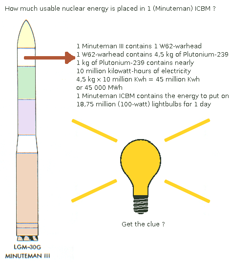 Image explaining how much nuclear energy is in one (Minuteman 3) ICBM. Image was made based on File:Light_Bulb-Silhouette.svg, File:Minuteman_comparison.png and File:Minuteman12.png References= Thermonuclear bomb (most used nuclear weapons = ICBM's ) List of ICBMs (most used ICBM's in the USA (=Minuteman 3)) LGM-30 Minuteman (1 Minuteman 3 ICBM containing 1 W62-warhead (each W62 warhead requiring 4,5 kg of Plutonium-239) (1 kg of Pu-239 equalling nearly 10 million kilowatt-hours of electricity.) 1 Minuteman ICBM = 4,5 x 10 million Kwh = 45 million Kwh or 45 000 MWh 1 Minuteman ICBM contains the energy to put on 450 million 100 watt lightbulbs for 1 hour (1 100-watt light bulb consumes 0.1 kWh in an hour, The USA has 450 Minuteman ICBM's = roughly 450 warheads = 20 250 million Kwh or 20 250 000 Mwh 500 Minuteman ICBM's contain the energy to put on 225 000 million 100 watt lightbulbs for 1 hour or 9375 million 100-watt lightbulbs for 1 day